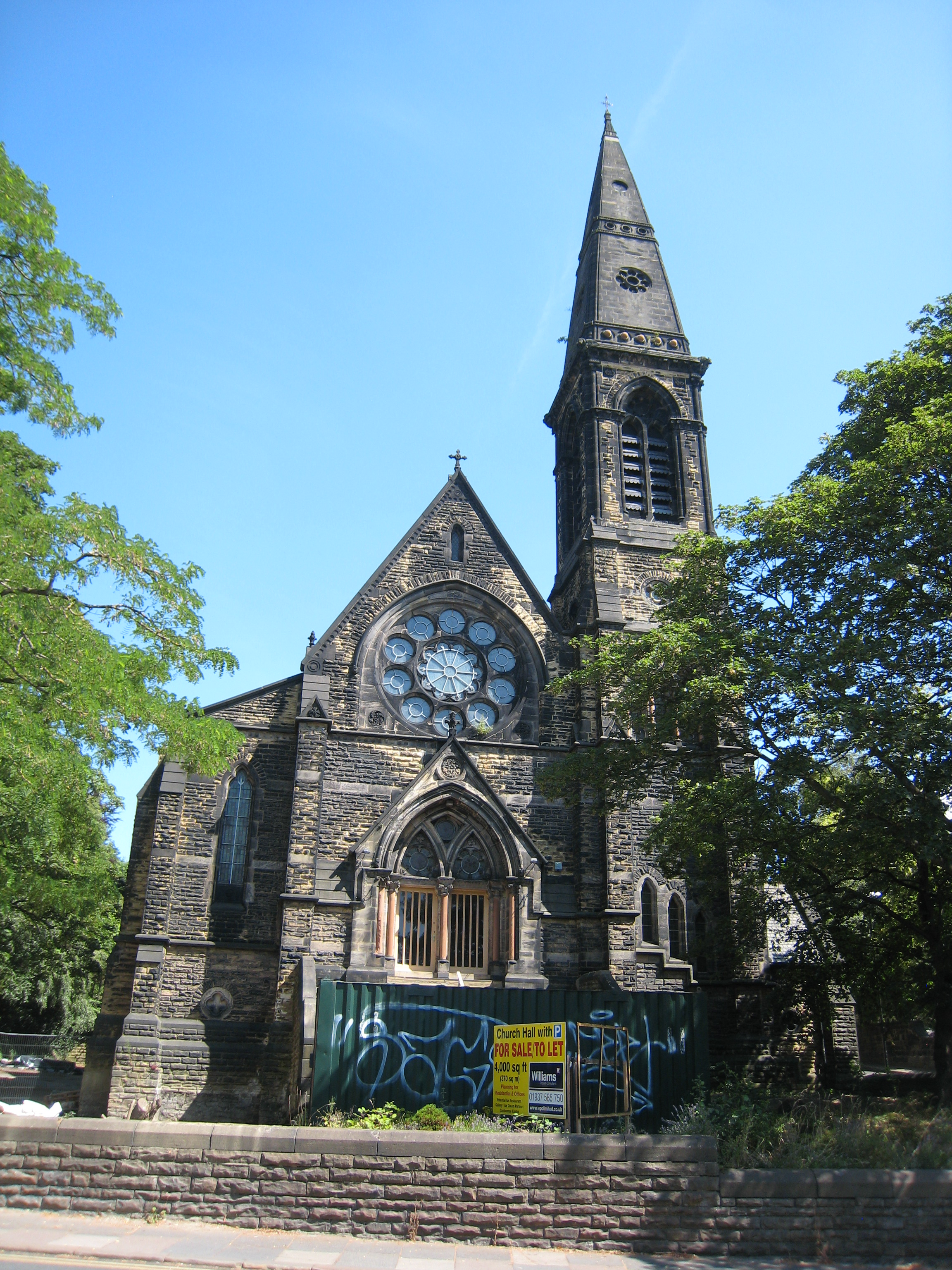 The former Headingley Concregational Church on the corner of Headingley Lane and Cumberland Road, Headingley, Leeds. Has been City Church and Ashwood Hall. Headingley Lane view.